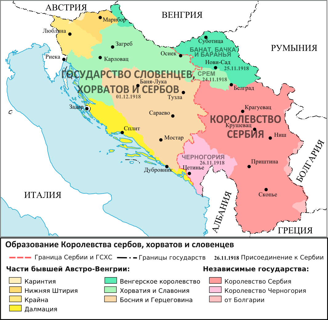 Unification of Yugoslavia